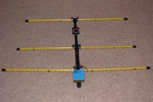 A 144 MHz (two meter band) antenna used for radio direction finding contests, in which the contestants compete to find a hidden transmitter The operator points the antenna in different directions; when the signal in the receiver is strongest the antenna is pointing at the transmitter. This type of antenna is called a Yagi-Uda antenna. The antenna's beam axis, the axis of strongest reception, in upward in this photo.